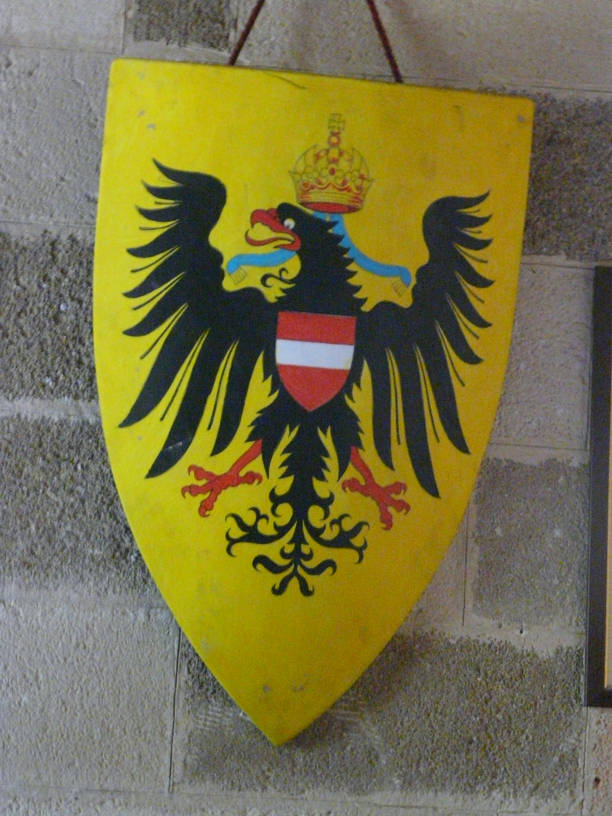 Palace of the Grand Master of the Knights of Rhodes